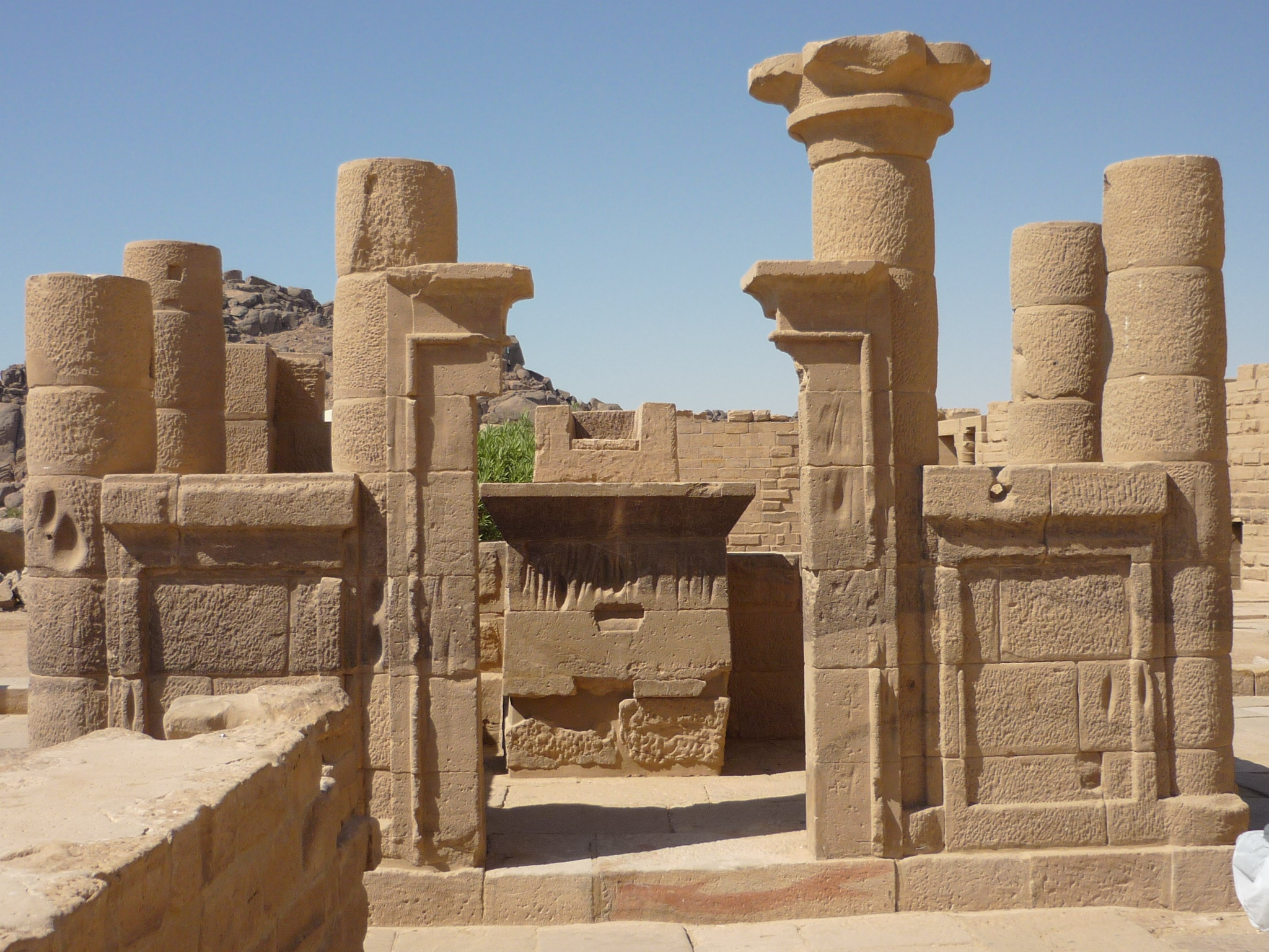 Horus temple, Philae Island, Egypt